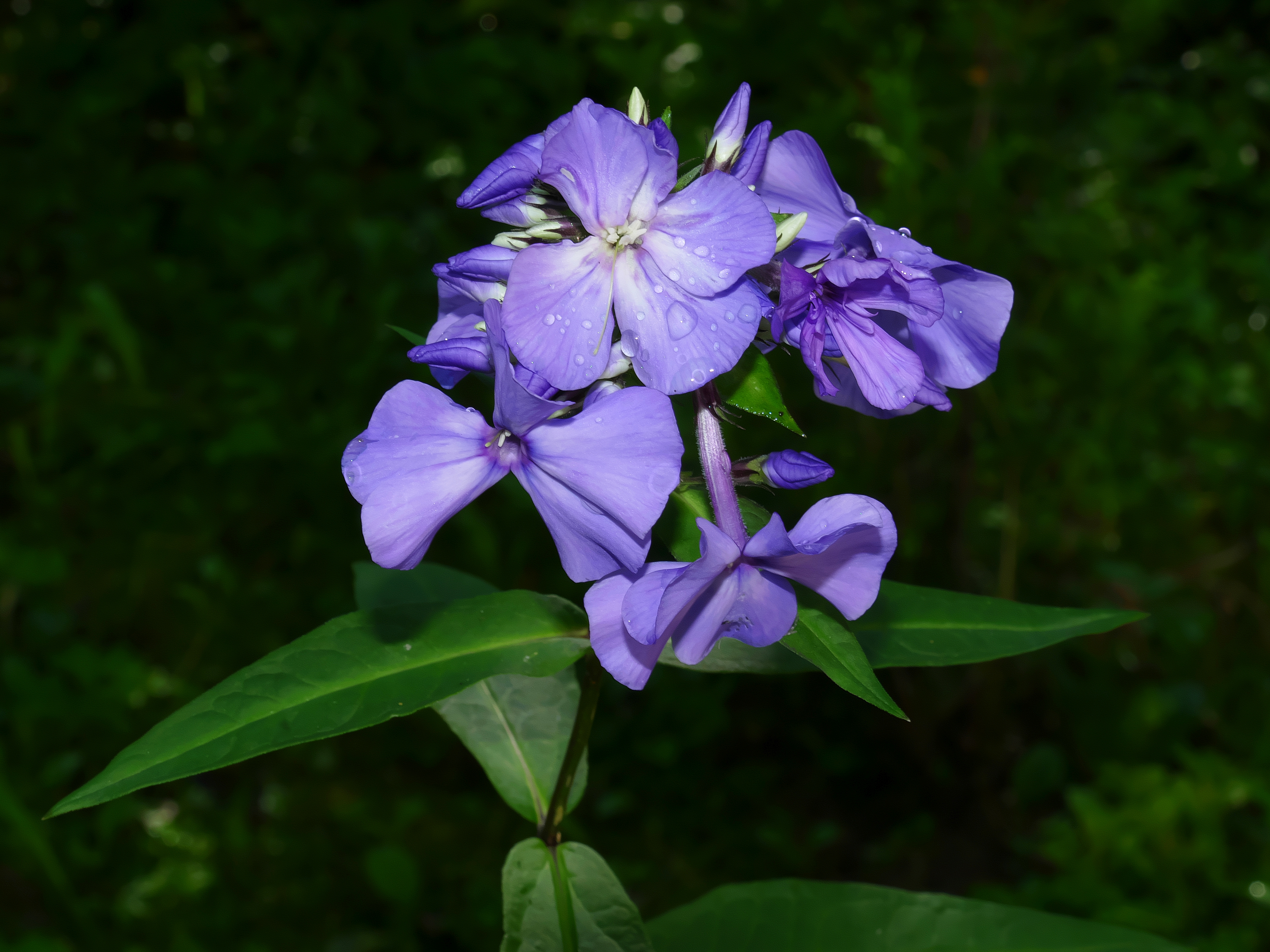 Inflorescence of Fall phlox. Moscow region, Russia.